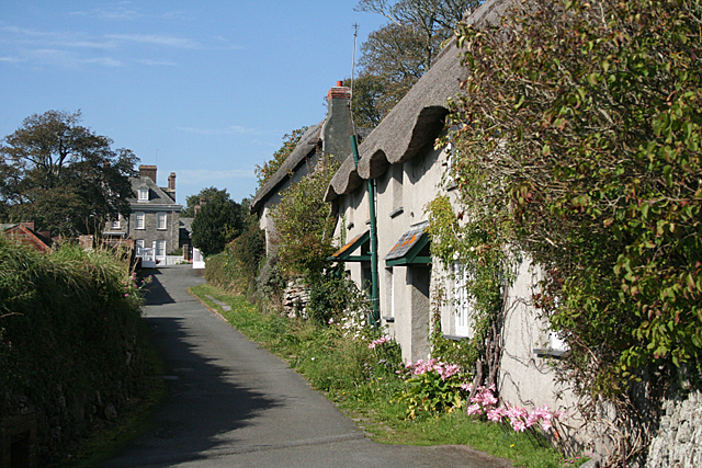 Holbeton: towards Mothecombe House. A hamlet in Holbeton parish.